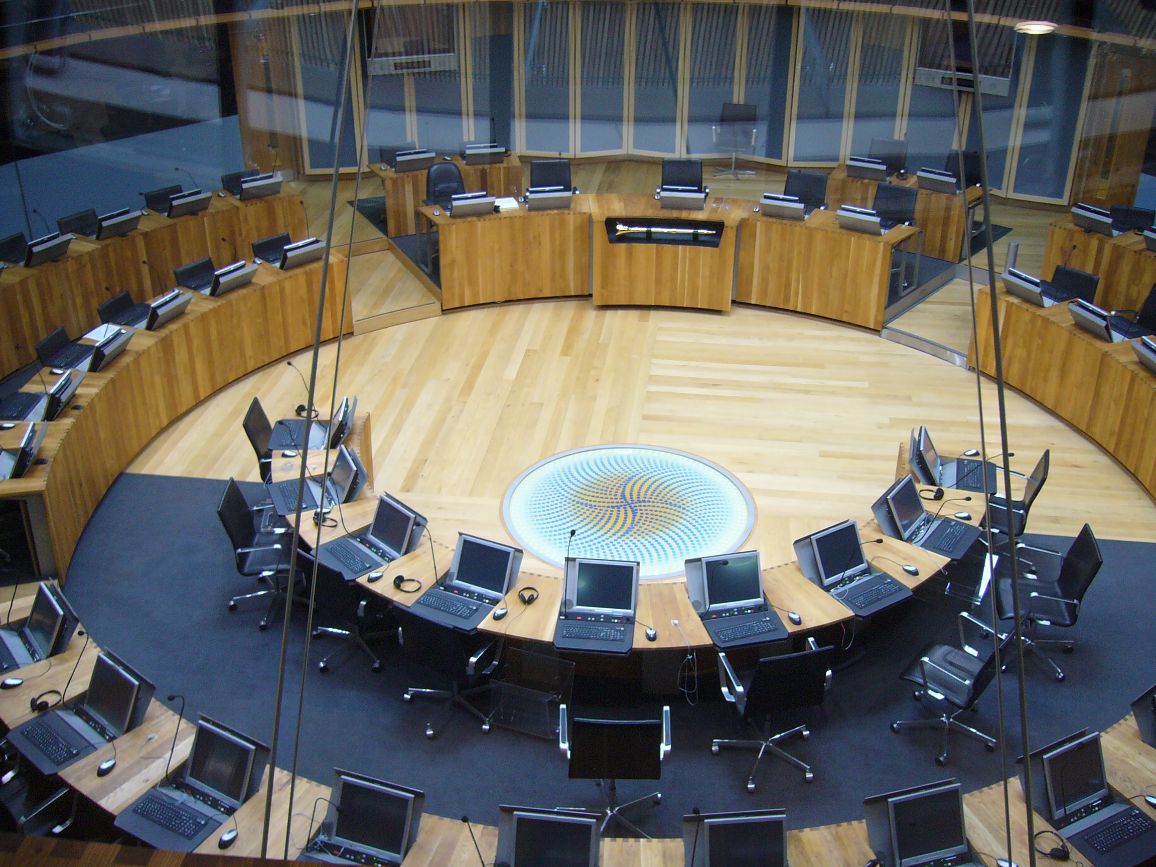 Siambr (Debating Chamber)